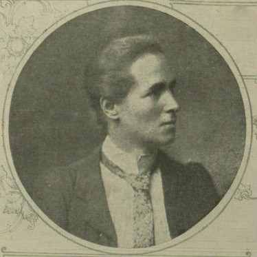 Edith Rebecca Saunders, English botanist, 1919